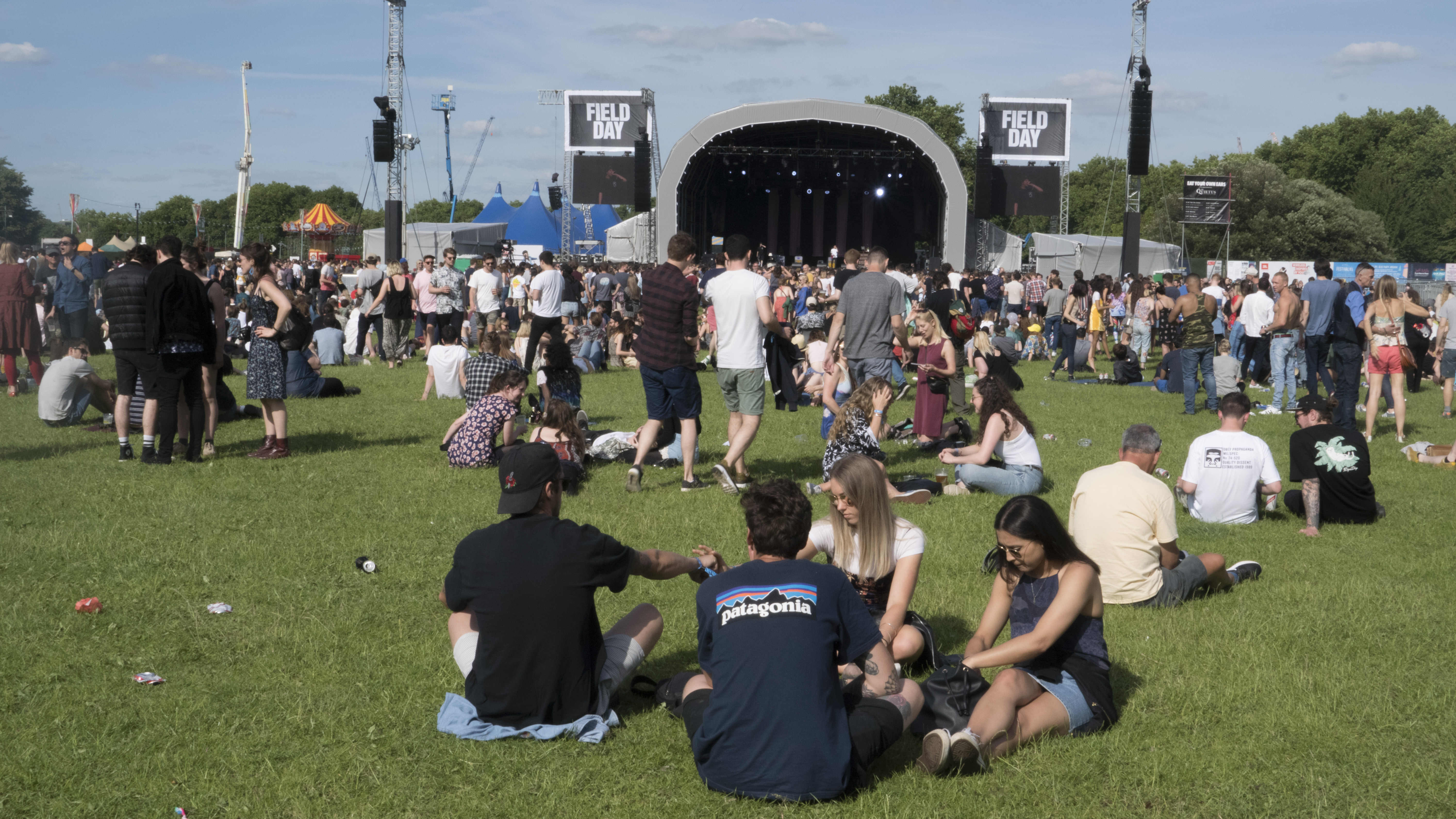 People sitting on the grass at Field Day 2017